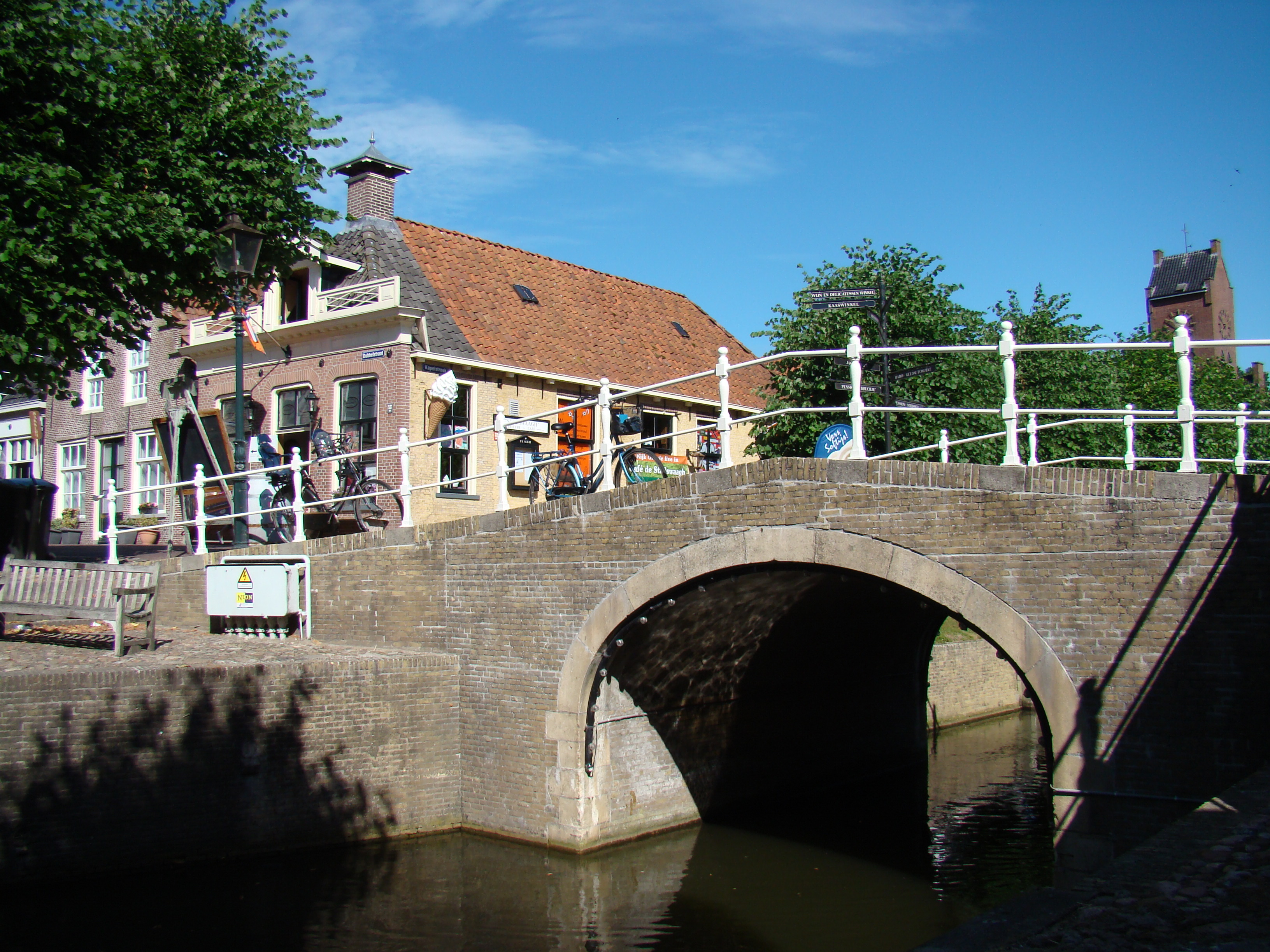 Impressions of Sloten, Netherlands